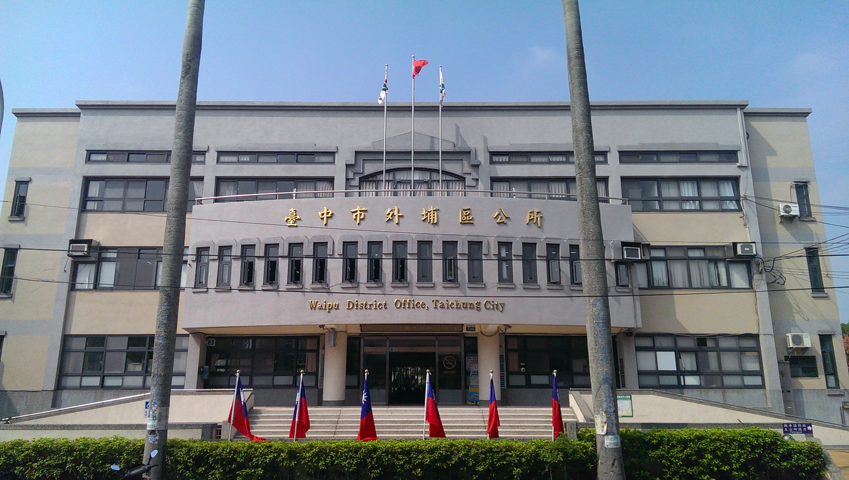 Waipu District Office中文（台灣）: 外埔區公所